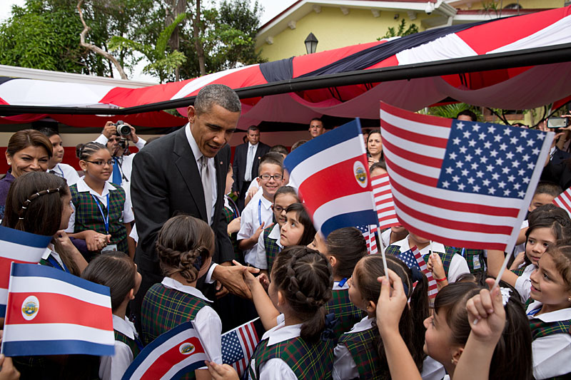 United States President Barack Obama and President Laura Chinchilla of Costa Rica participate in a cultural event with Costa Rican children at the Ministry of Foreign Affairs in Casa Amarilla, San José, Costa Rica on 3 May 2013.